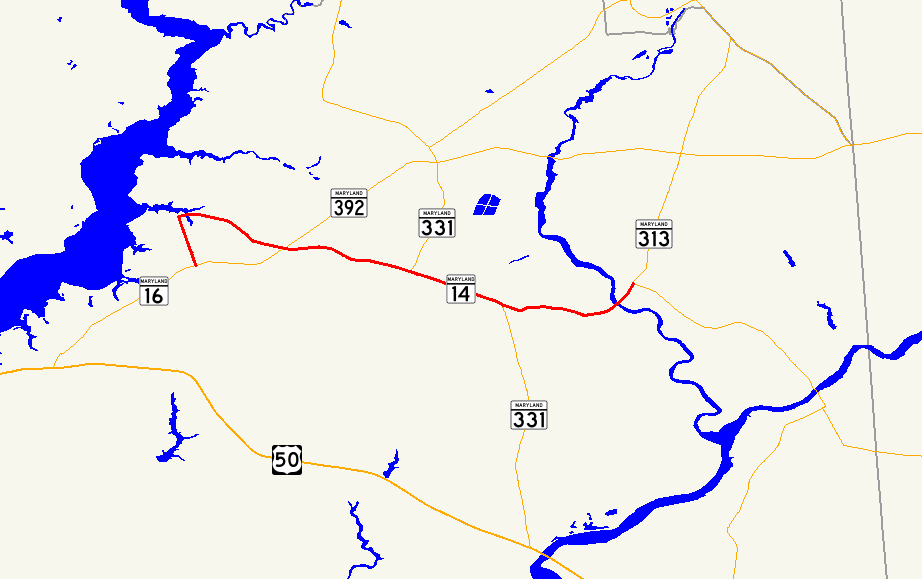 Map of Maryland Route 14